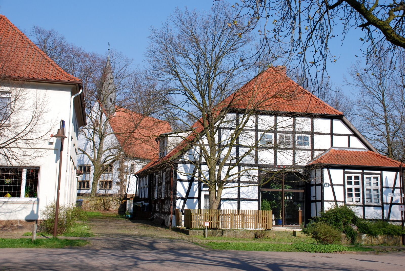 Center of village in Hahlen (Germany)